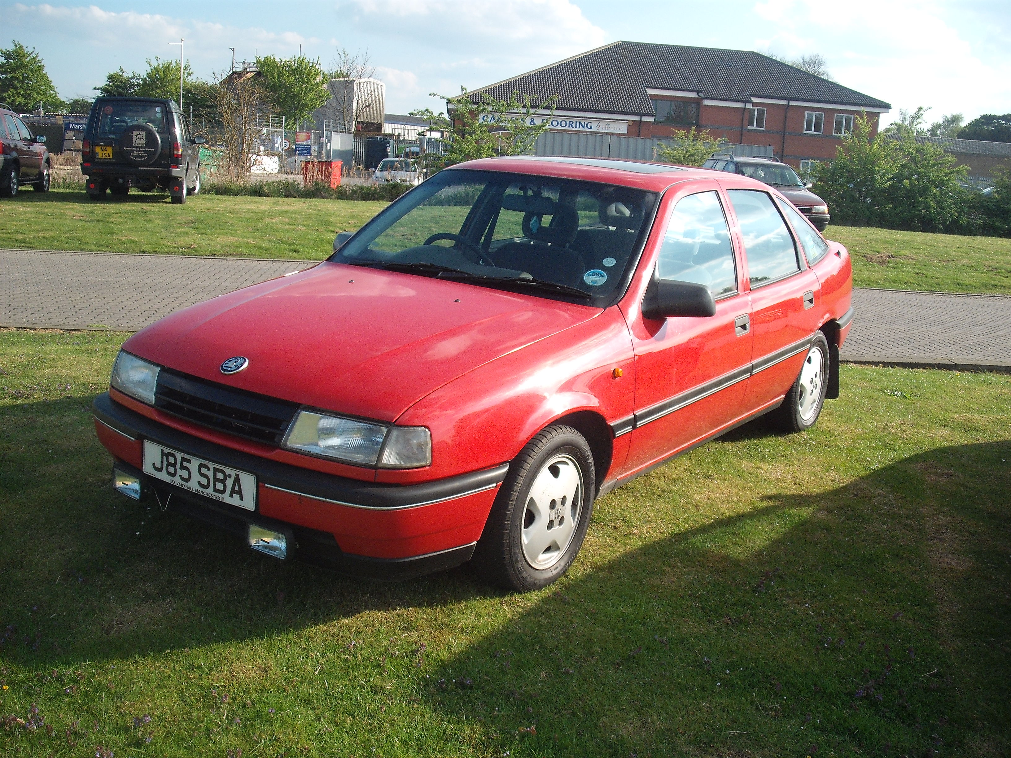 Vauxhall Cavalier MK3 1.6 GL